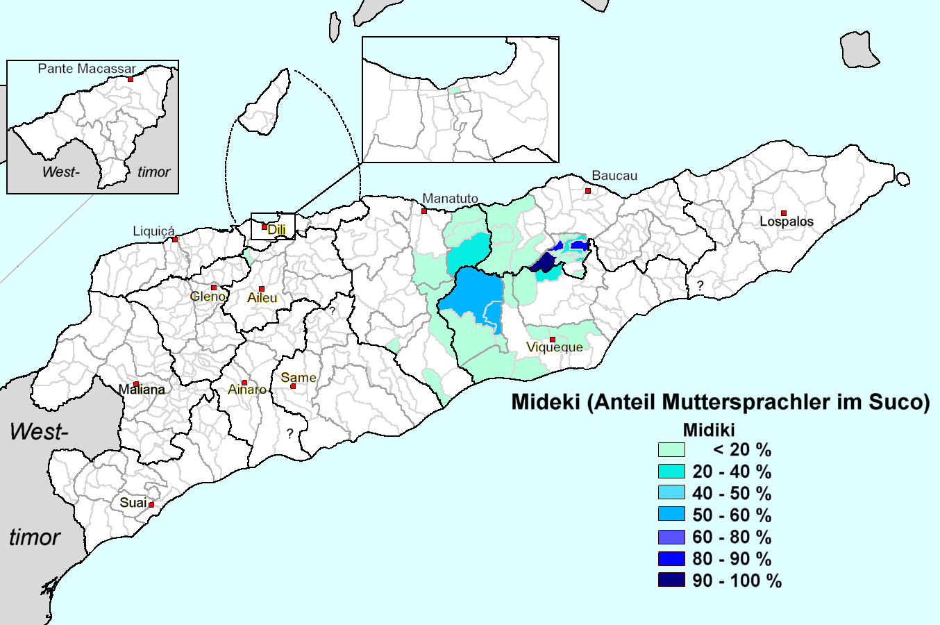 Percentage of people using Midiki as mother tongue in sucos of East Timor (Timor-Leste), according census 2010